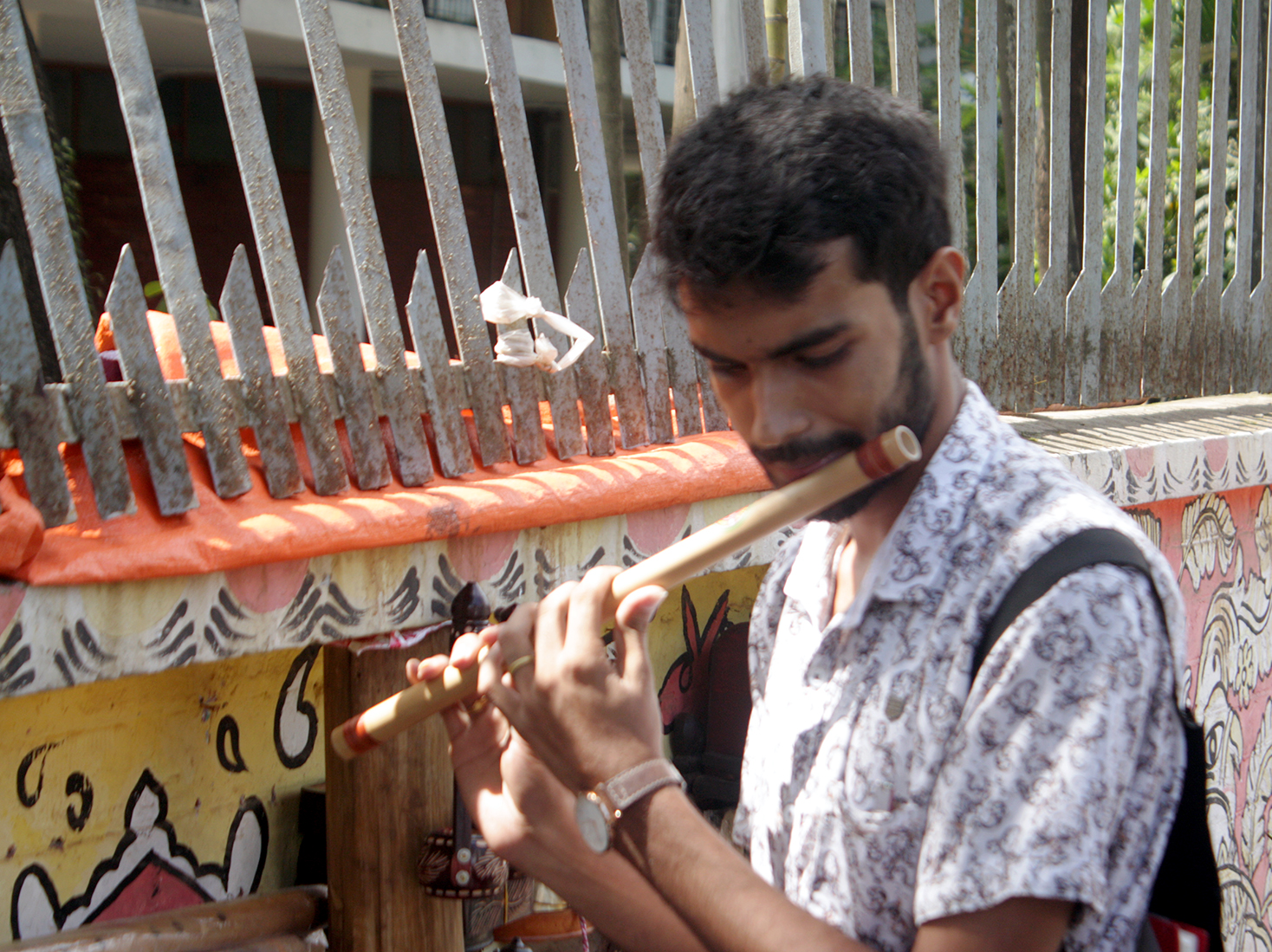 A boy playing bamboo flute in front of Faculty of Fine Arts, University of Dhaka, Bangladesh